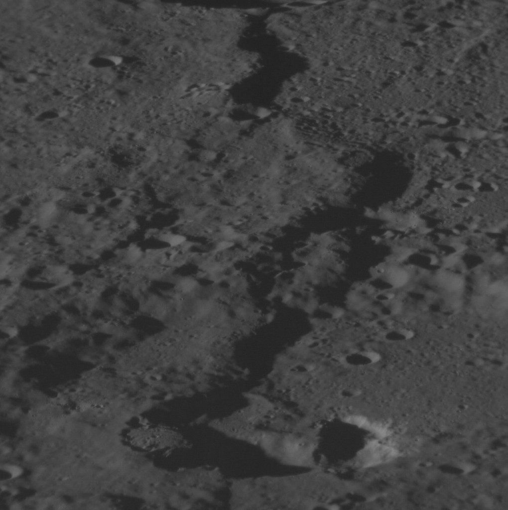 Victoria Rupes, a scarp on Mercury, which cuts across the crater Enheduanna in the foreground. MESSENGER Narrow Angle Camera. North is at top. Foreground width is approximately 60 km. Emission Angle: 68.8 Incidence Angle: 80.9 Latitude: 49.6 Longitude: 326.1 Phase Angle: 78.3